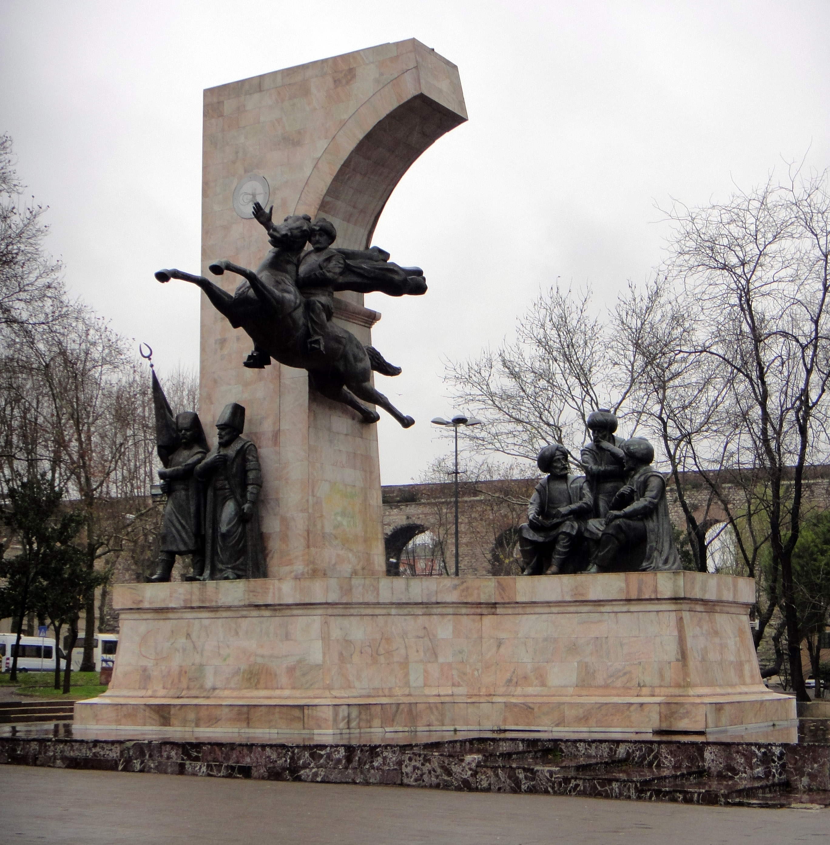 The Memorial of Sultan Mehmed II the Conqueror at the Fatih Park, Istanbul.